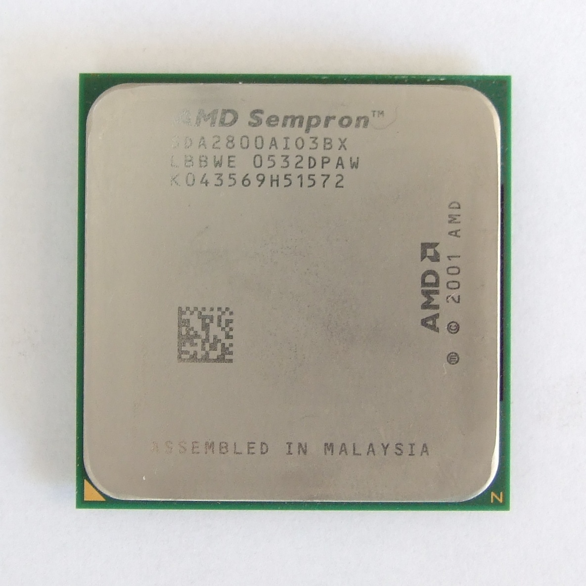 AMD Sempron for socket 754.